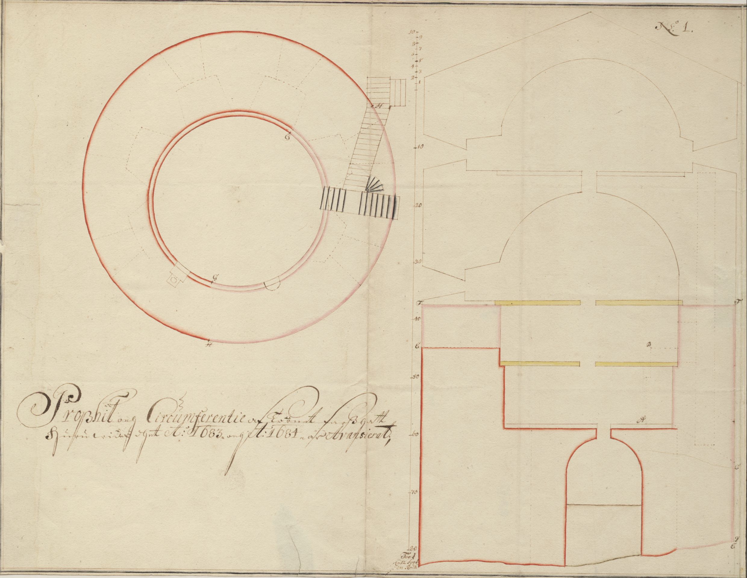 Profile drawing of the tower Fars hatt (Fathers hat) on Bohus fortress. Rebuilt after the demolition in 1678.